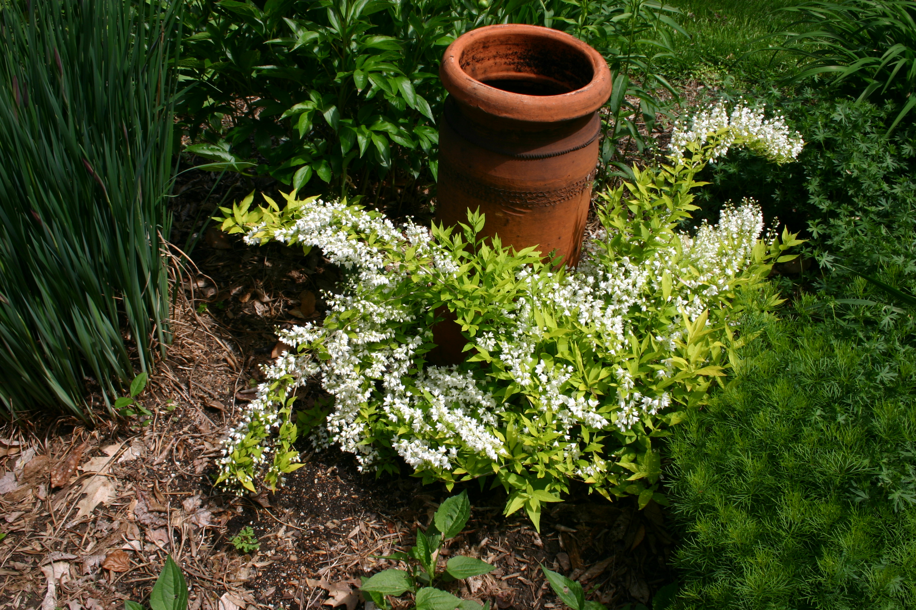 Deutzia cv. 'Chardonnay Pearls'